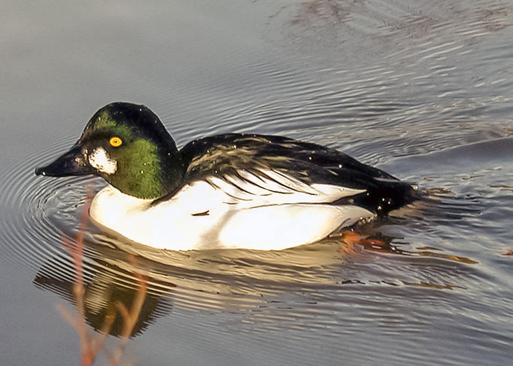 Drake Common Goldeneye at Slimbridge Wildfowl and Wetlands Centre, Gloucestershire, England.